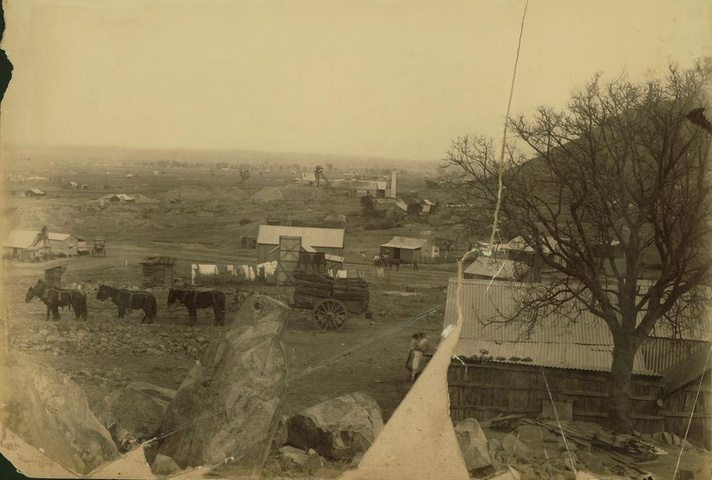 Mining settlement near Charters Towers, ca. 1890. Due to the gold mining boom between 1872 and 1899, Charters Towers operated the only Stock Exchange outside of a capital city. During this period, the population was approximately 27,000, making Charters Towers Queensland's largest city outside of Brisbane. The decline of mining following World War I saw the population shrink and the town become the supply centre of the Dalrymple Shire as well as the educational centre for students from all over North Queensland.